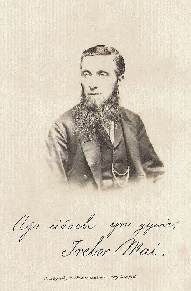 Photographic portrait of Welsh-language poet Robert Williams or "Trebor Mai", from the collected edition of his poems, Gwaith Barddonol Trebor Mai (Liverpool, 1883). His bardic name "Trebor Mai" is an acrostic of "I am Robert". Trebor is a personal name (cf. Trevor) and Mai means 'May'.